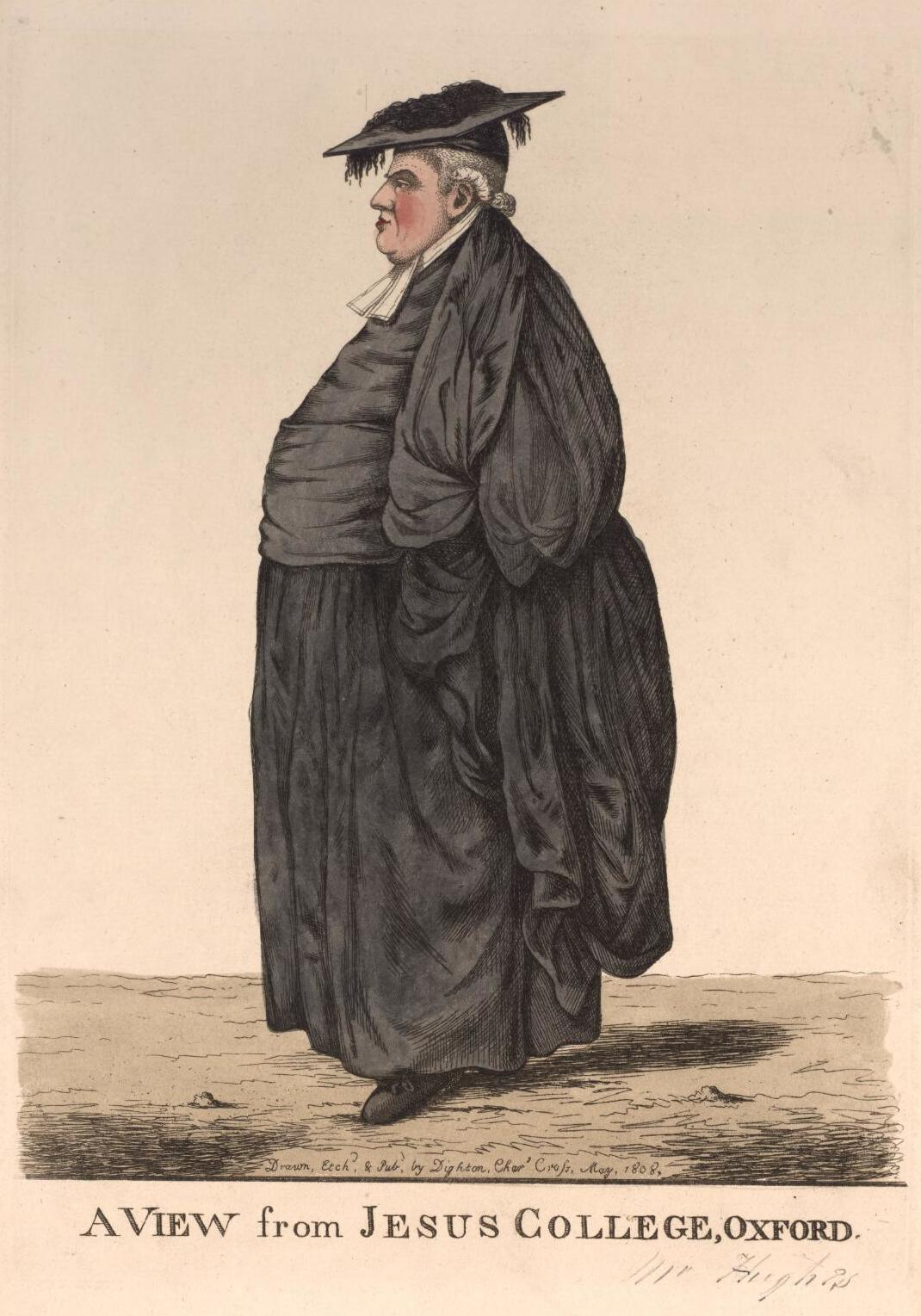 A portrait from the Welsh Portrait Collection at the National Library of Wales. Depicted person: David Hughes – Principal of Jesus College, Oxford